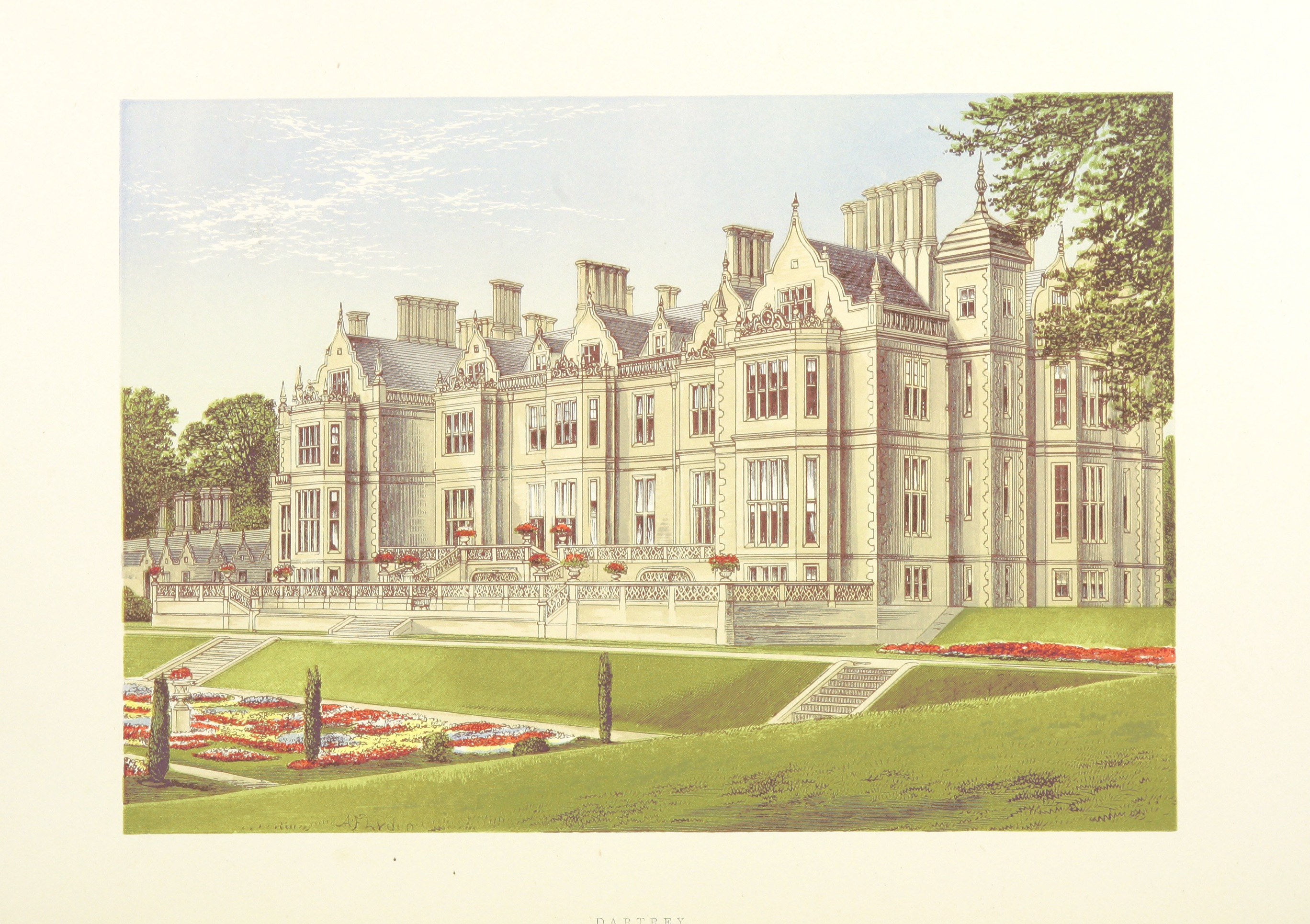 House at Dartery Estate, County Monaghan (Building demolished in 1950). The house at Dartrey, Rockcorry, Co. Monaghan was built in 1846 for Richard Dawson, third Lord Cremorne and later first Earl Dartry. The house was demolished in the 1950s. All that remains of the estate are gatehouses, ruined Mausoleum and a stable block built on five sides of an octagon.